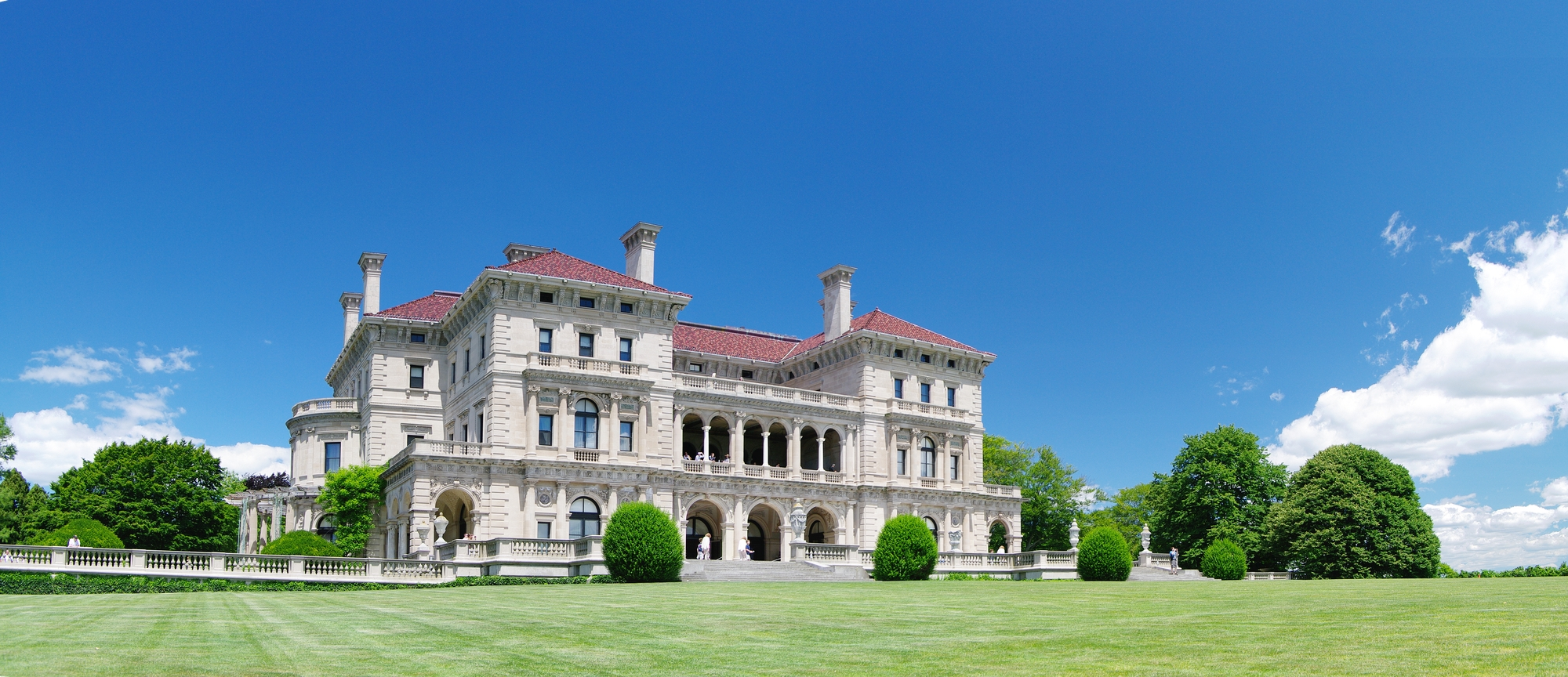 The Breakers, Vanderbilt's mansion in Newport, RI as it was in 2010.